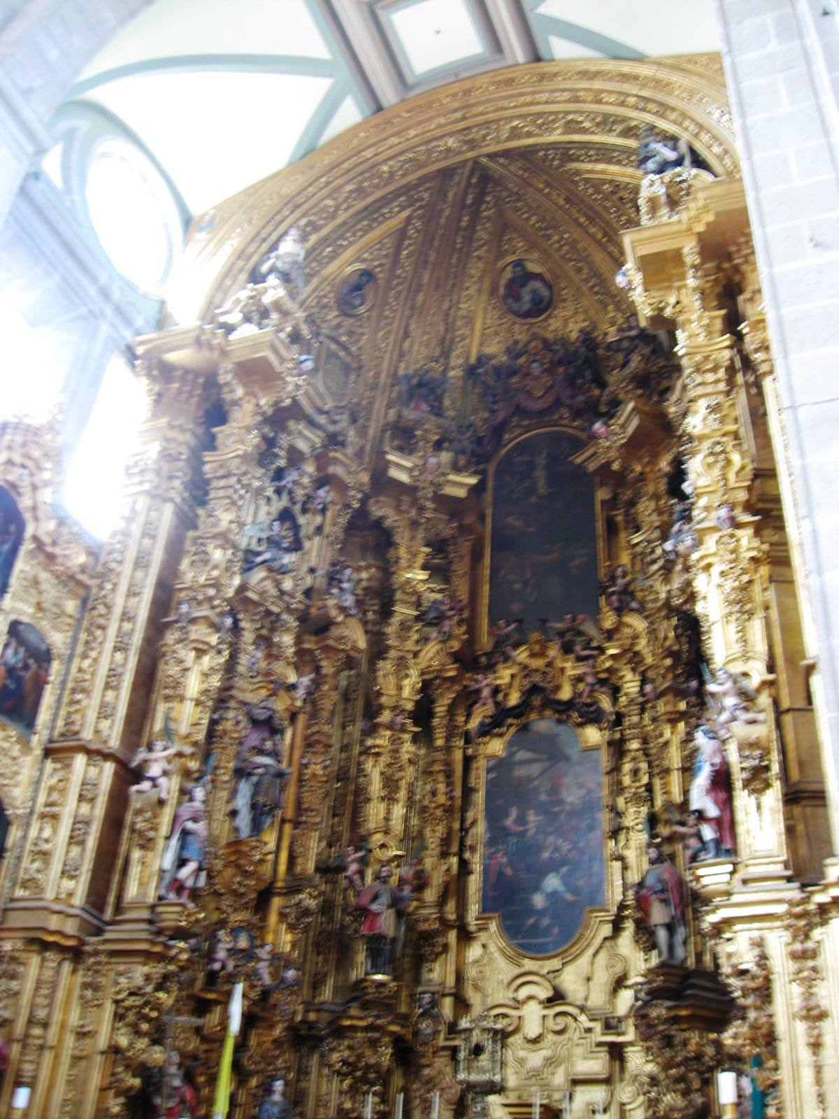 Altar of the Kings in the Mexico City Cathedral